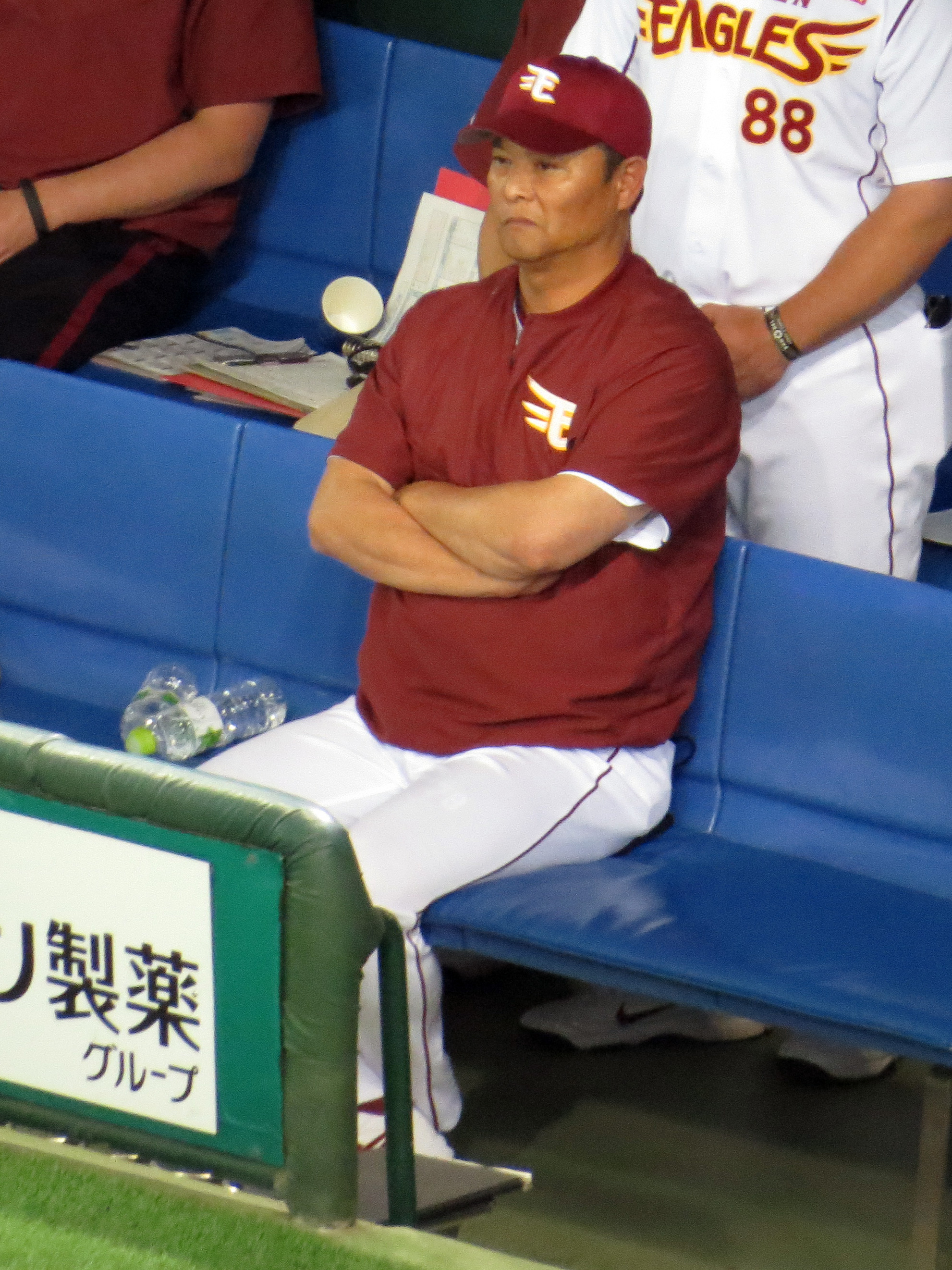 Hideki Hashigami, coach of the Tohoku Rakuten Golden Eagles, at Tokyo Dome.